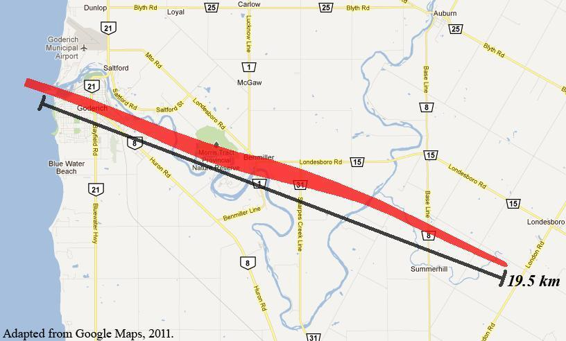 Map of the tornado track across Huron County, Ontario on August 21, 2011.